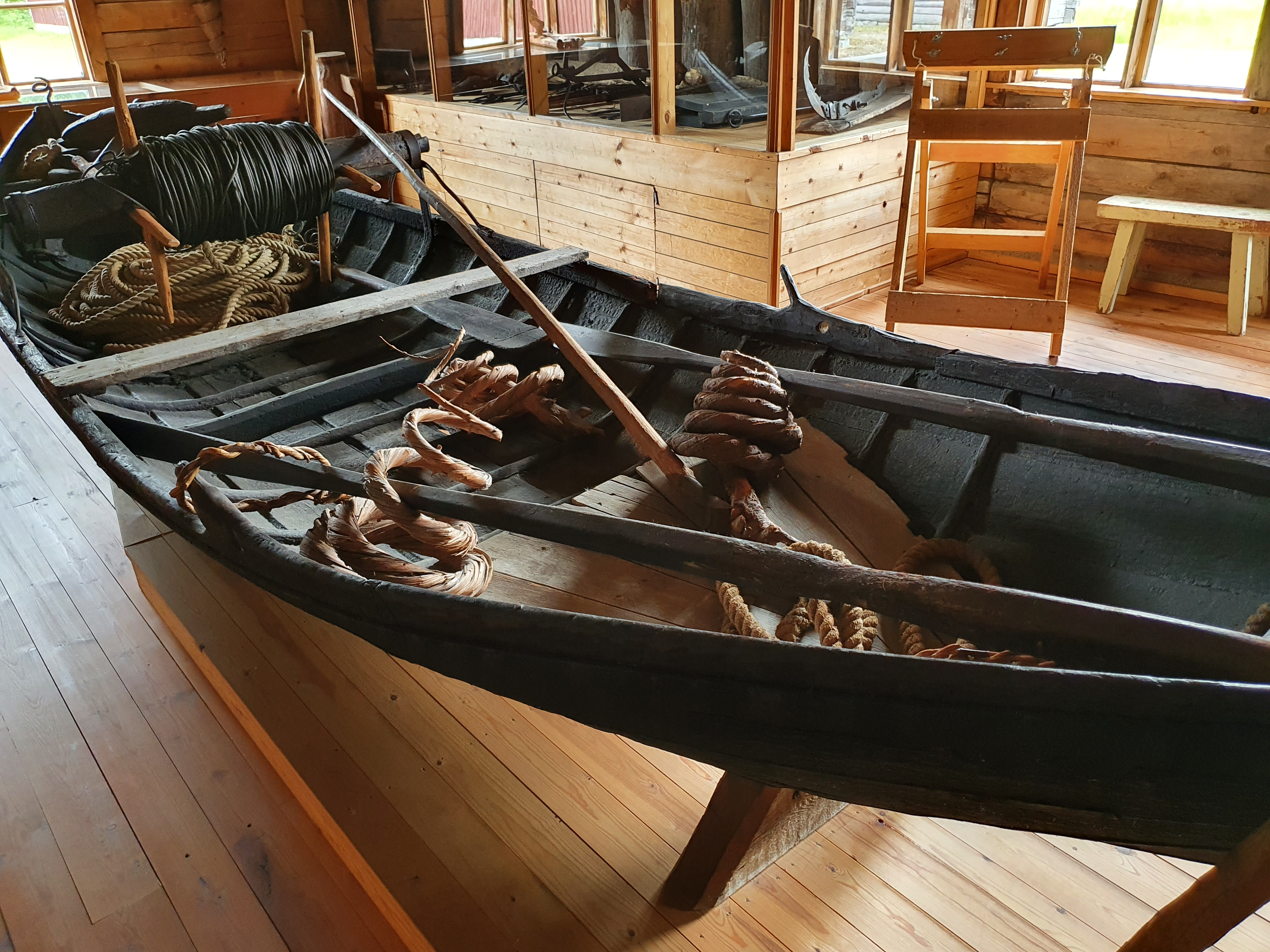 A special boat used in timber floating to move logs, displayed in the Pielinen museum in Lieksa, Finland.